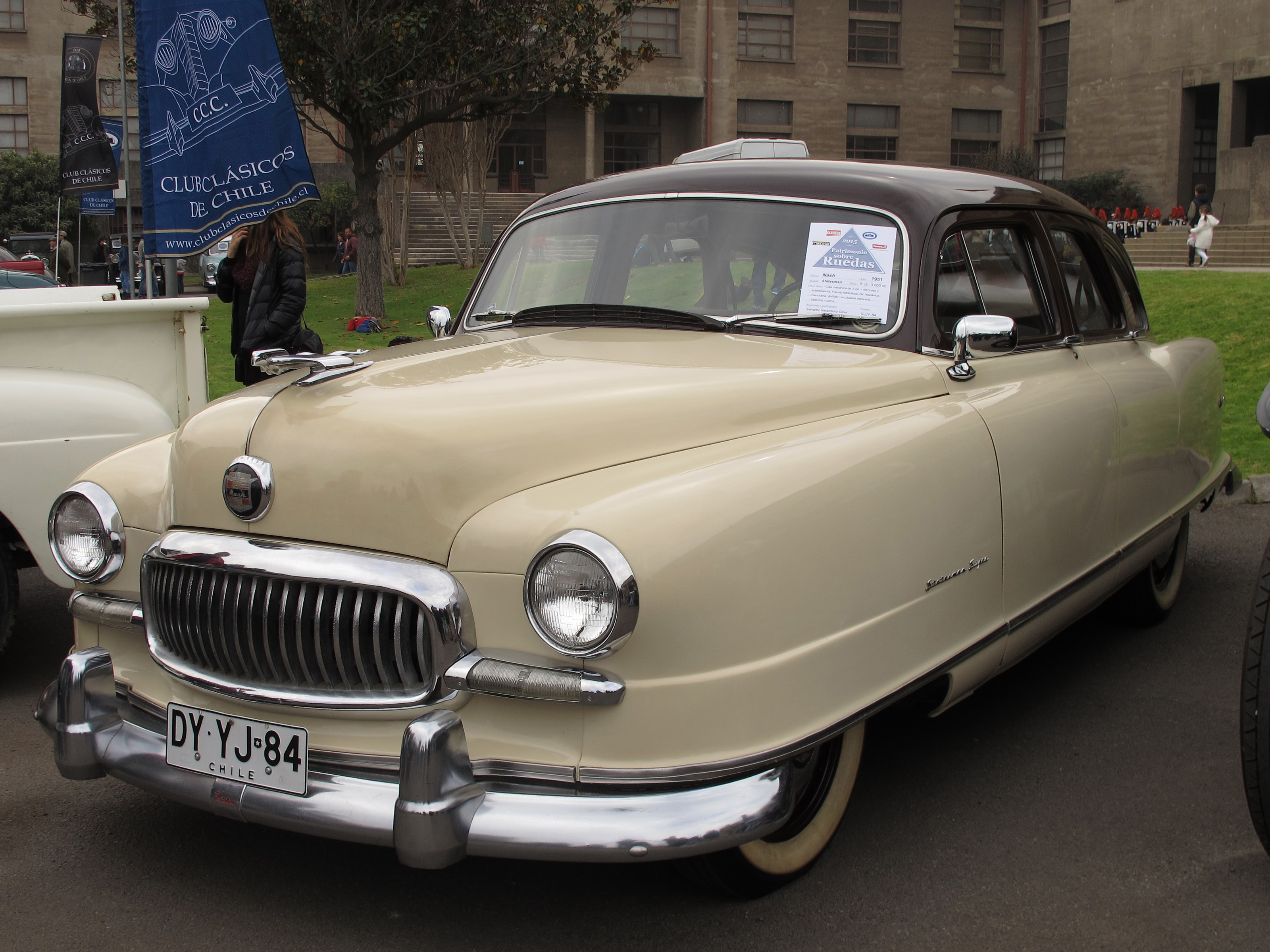 Nash Statestman Super Airflyte 1951